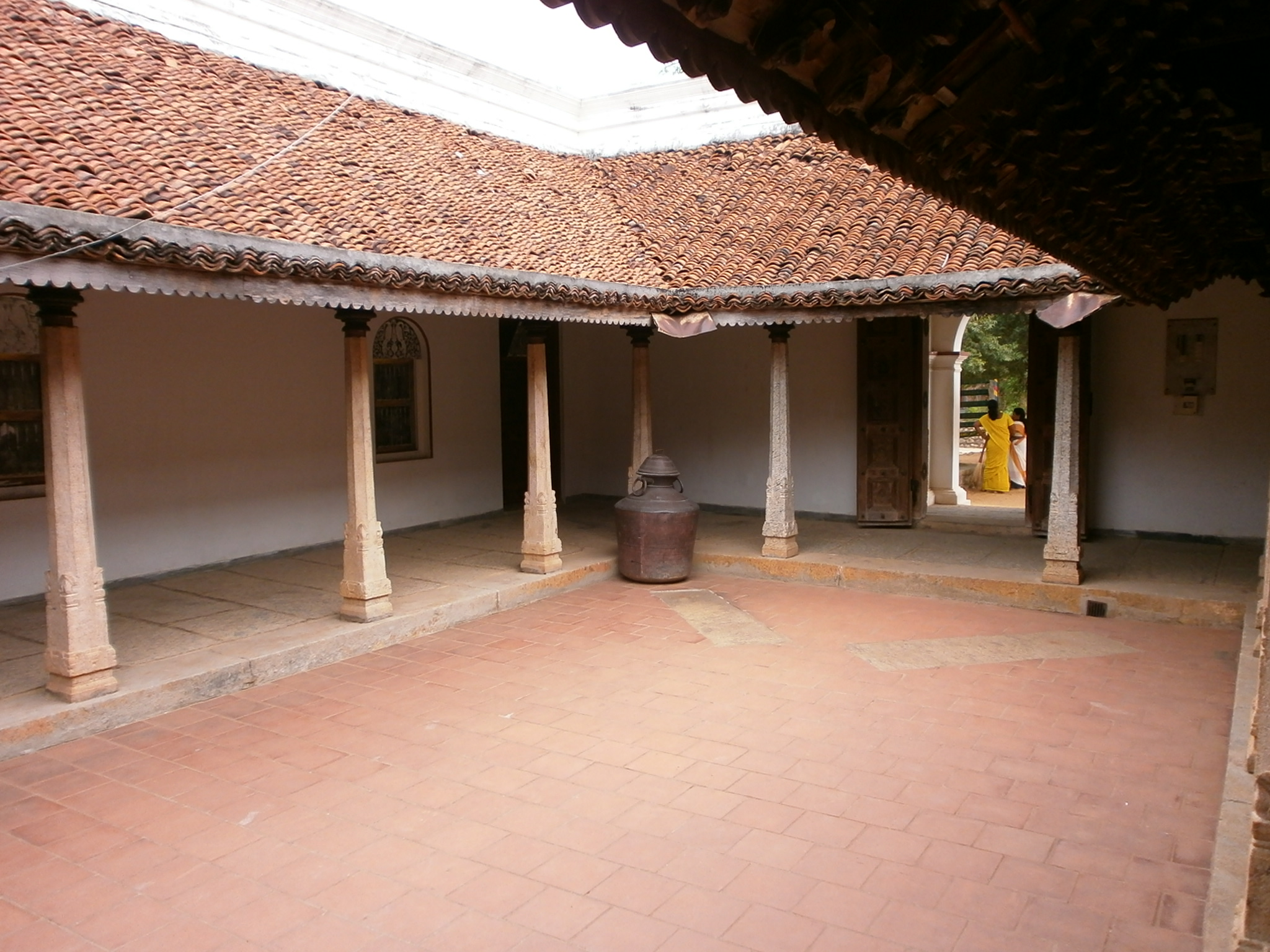 Dakshina-Chitra-Inside-House-2